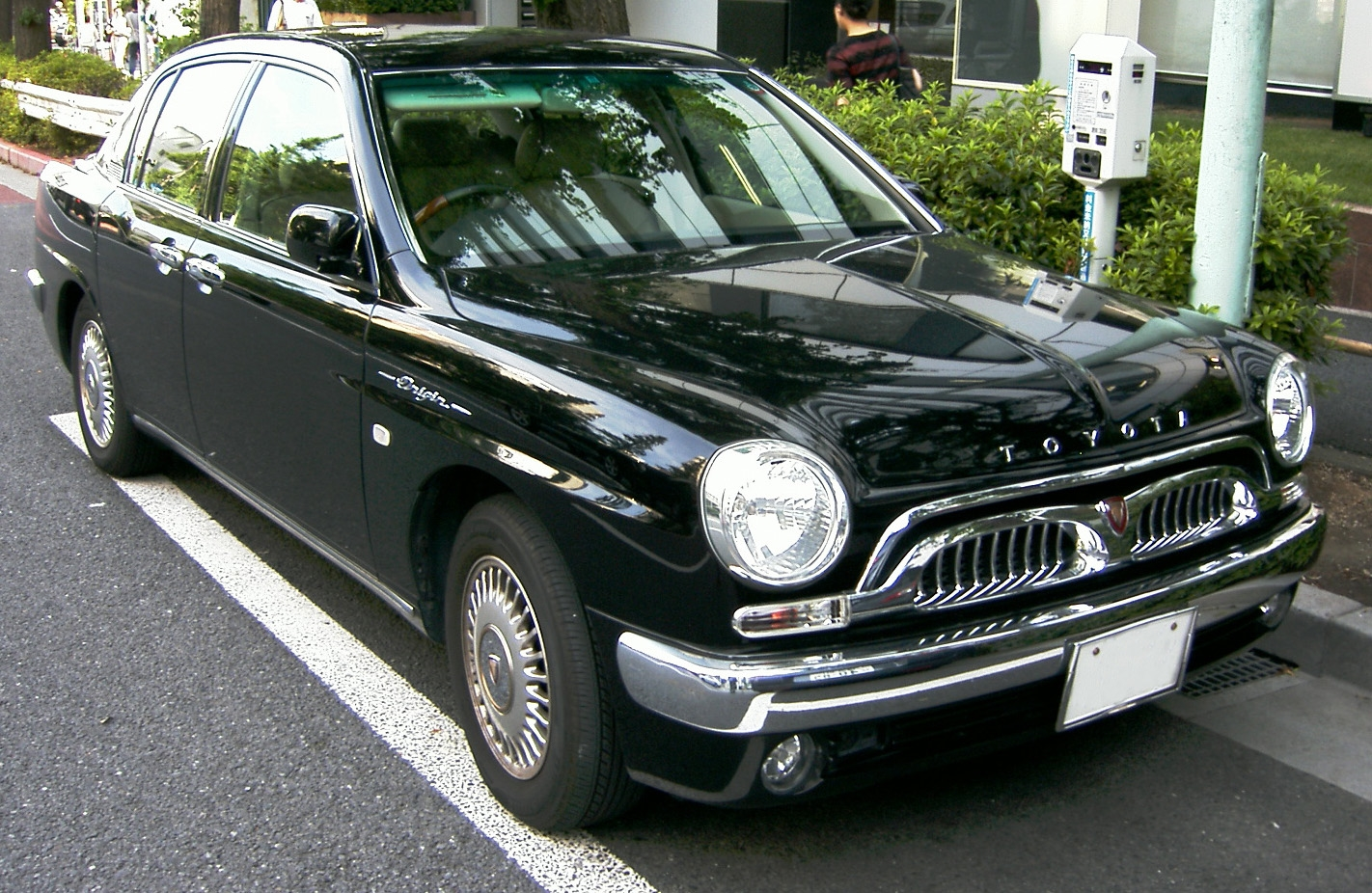 “Toyota Origin” ToyotaOrigin,Toyota releases it in November, 2000 Japan